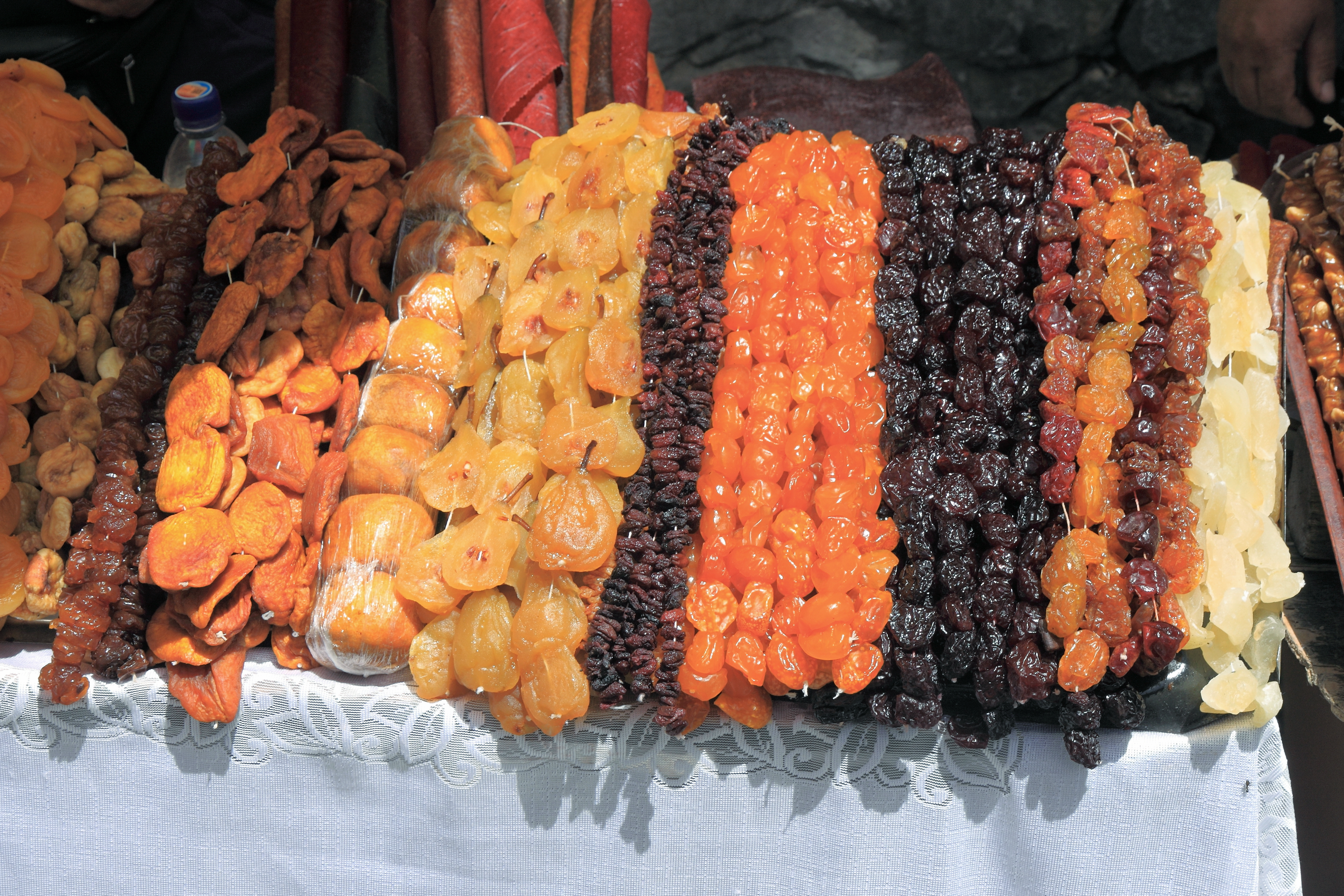 Food stalls in front of the Geghard monastery. Kotayk Province, Armenia.